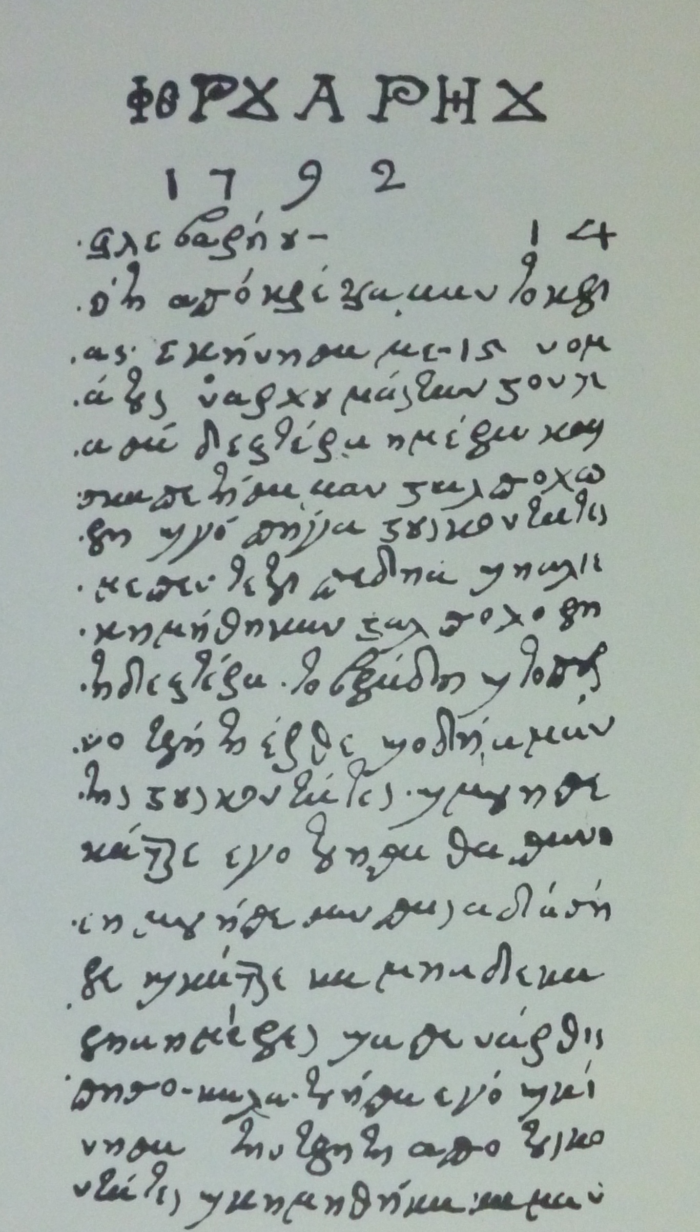 A page of a diary written by the Souliote F. Tzavellas. Contains memories of his captivity (1792-93) by Ali Pasha of Ioannina, and other events.